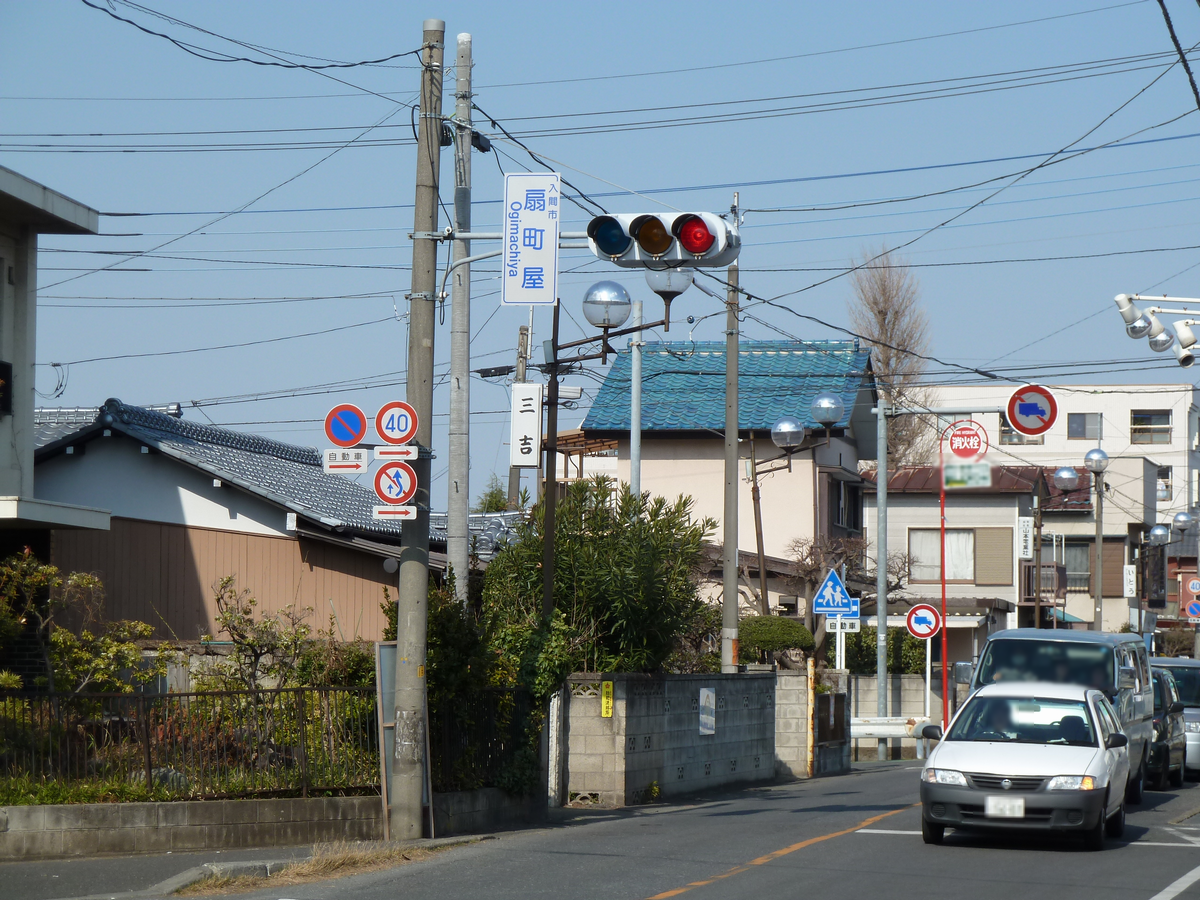 Ōgimachiya.